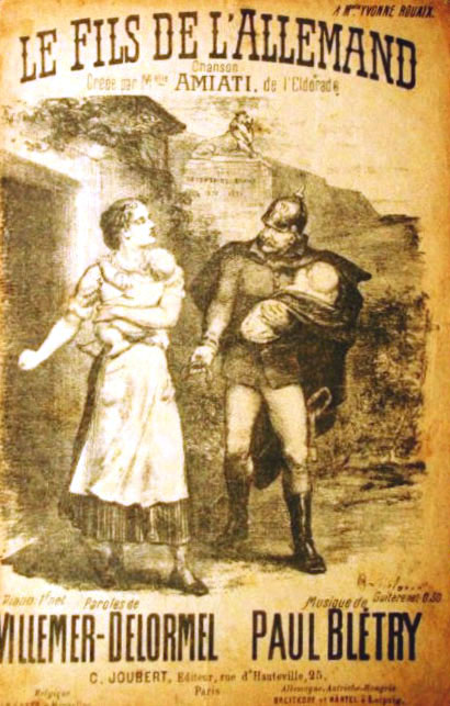 Cover art of French song